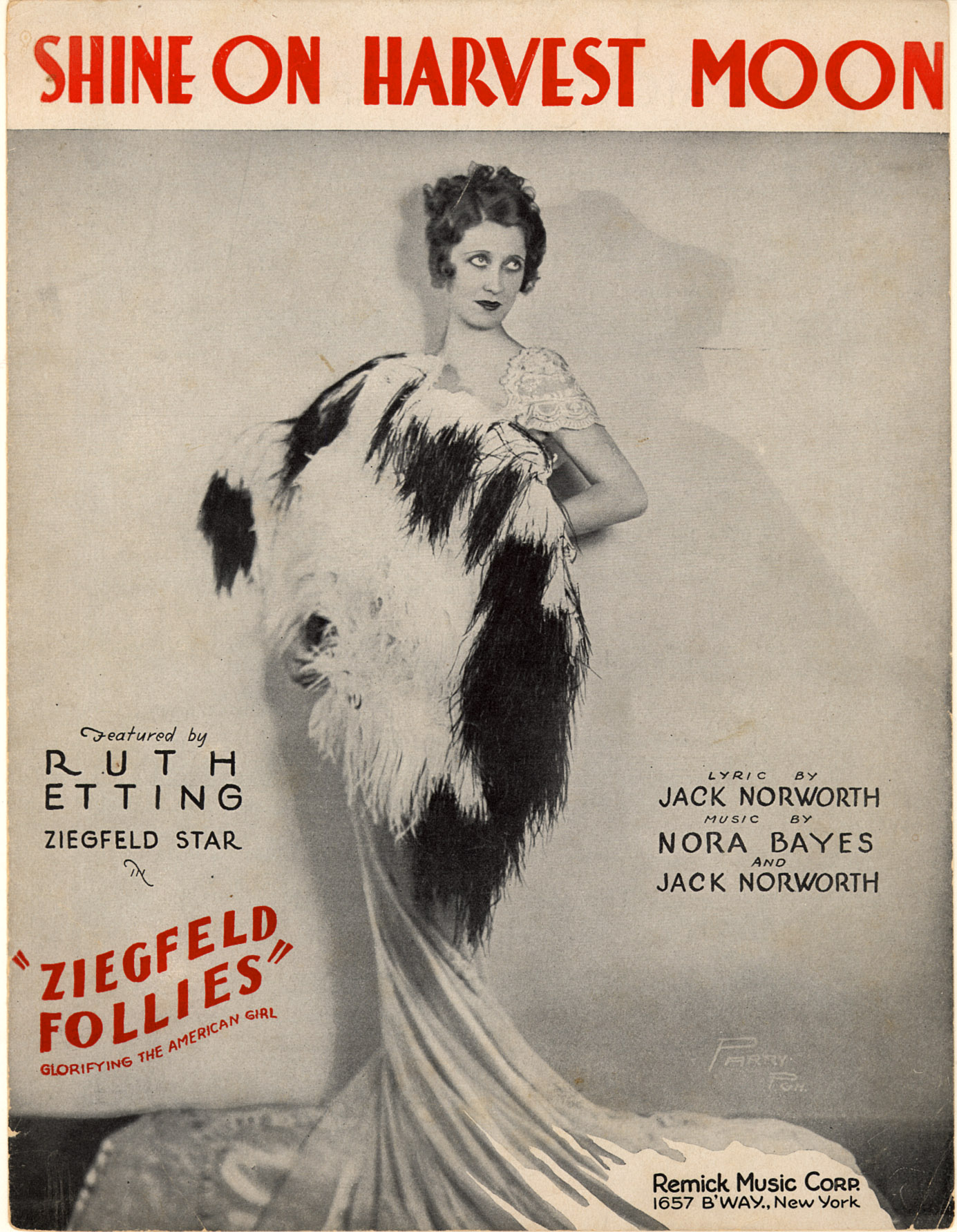 "Shine on Harvest Moon" sheet music (page 1 of 4) with Ruth Etting of the Ziegfeld Follies